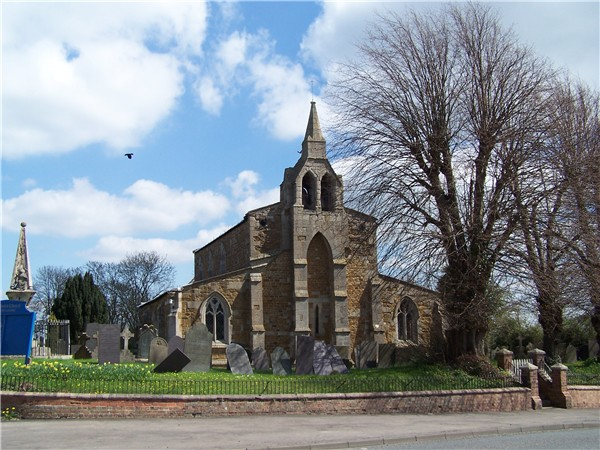 Burton Lazars parish church taken by kev747